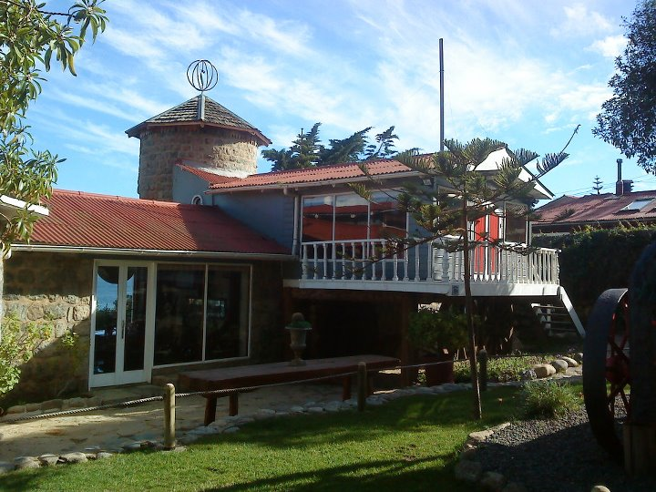 Una de las tres casas donde vivió el poeta Pablo Neruda- This is a photo of a national monument in Chile: 783